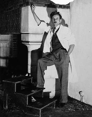 A picture of the sculptor, Heinz Warneke.